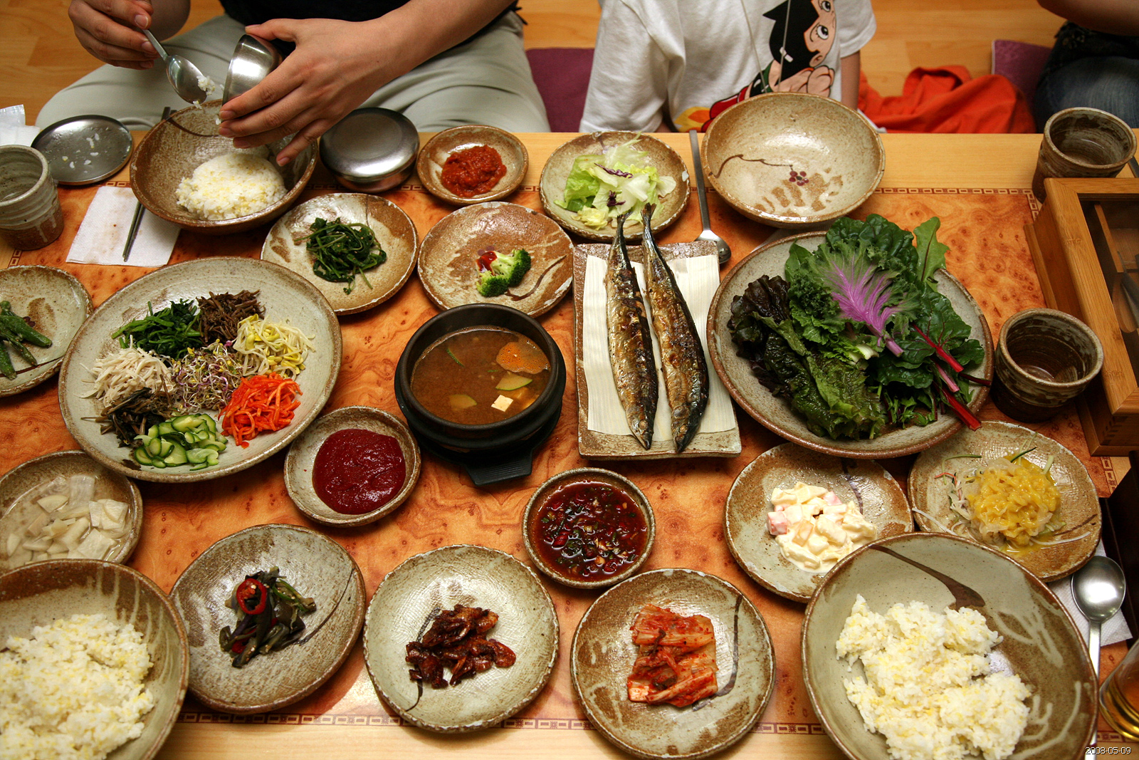 An array of bibim ssambap (a variant of bibimbap and ssambap) and banchan (small side dishes) at a restaurant in [Gyeongju], North Gyeongsang province, South Korea. Bibimbap is a rice dish usually consisting of various sauteed vegetables, mushroom, and minced meat. It is eaten after the ingredients are mixed together with a spicy chili pepper sauce called "gochujang". Ssambap is a rice dish served with various side dish and leaf vegetables to wrap them together with a sauce.